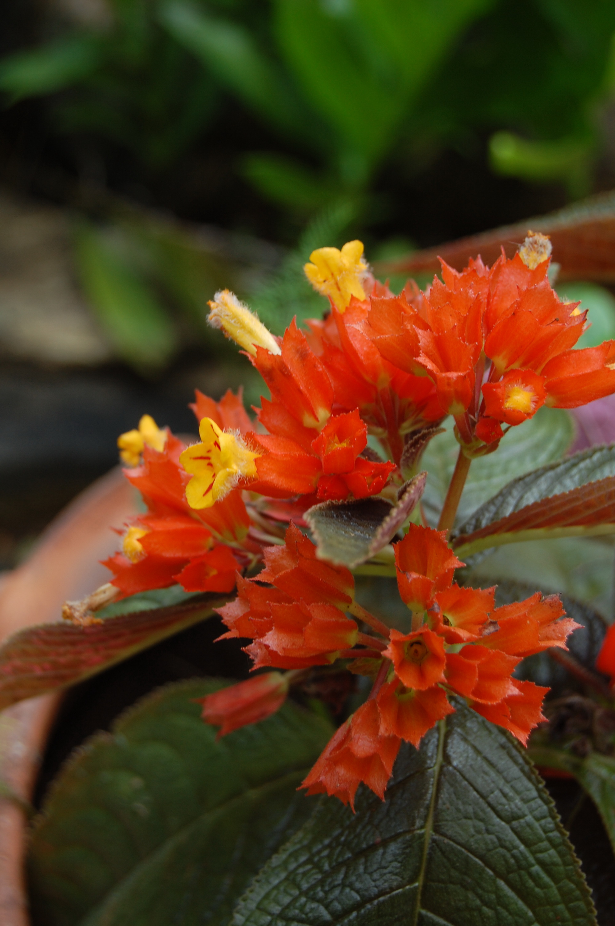 Chrysothemis pulchella